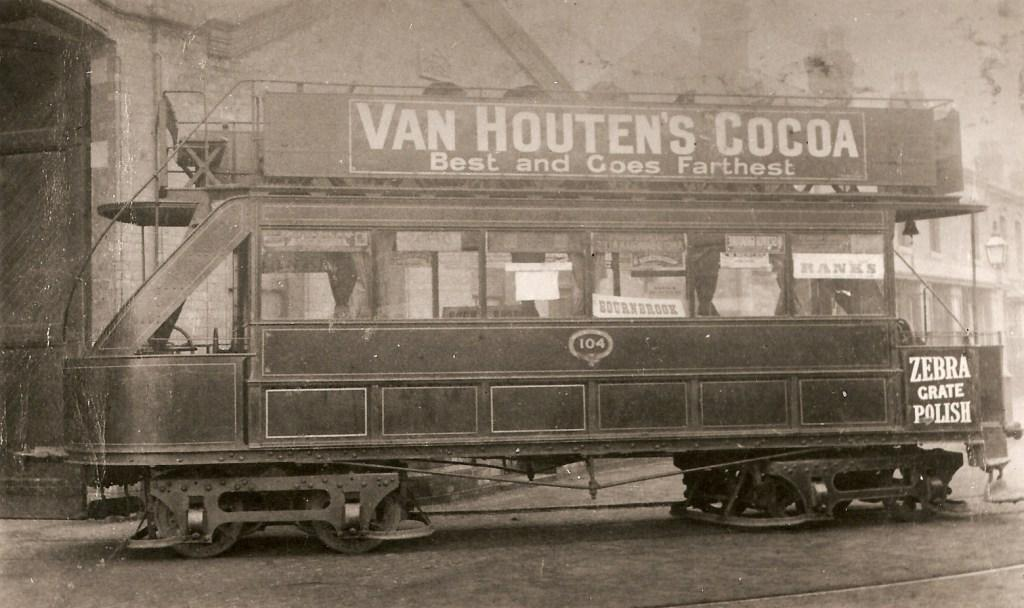 Old Bournbrook tram (Car No. 104) outside the tram shed in Dawlish Road, Bournbrook, Worcestershire (now Birmingham)